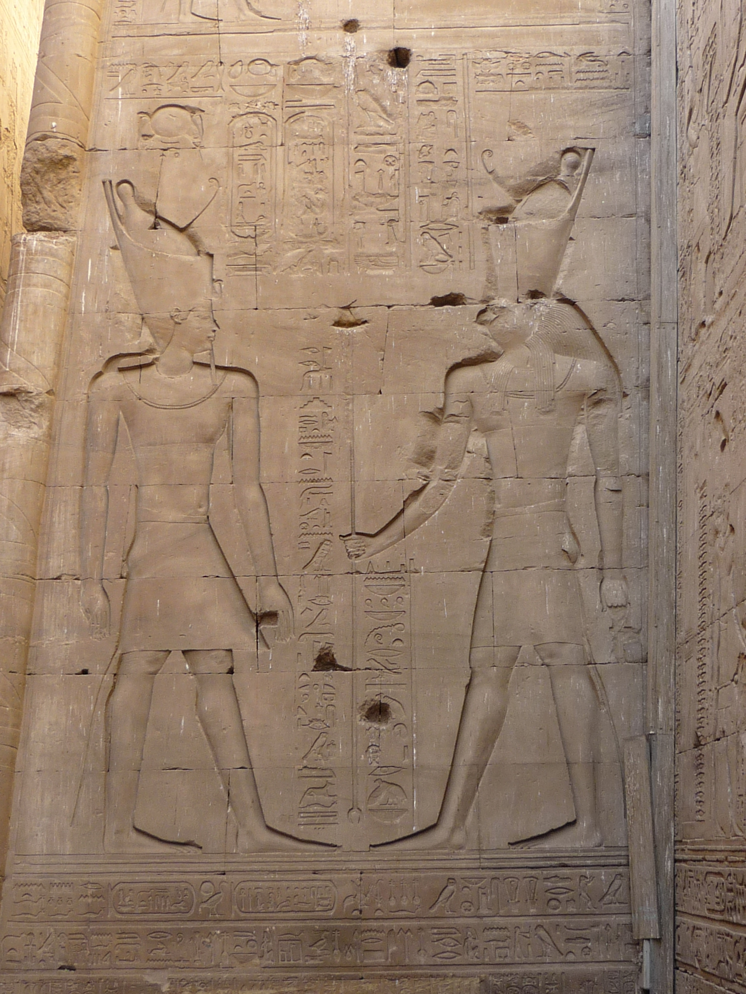 Wall relief of Ptolemy IX and Horus, temple of Edfu, Egypt